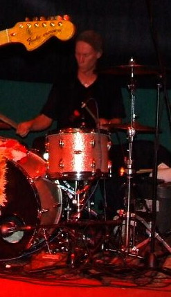 Paul Winterhart of Kula Shaker